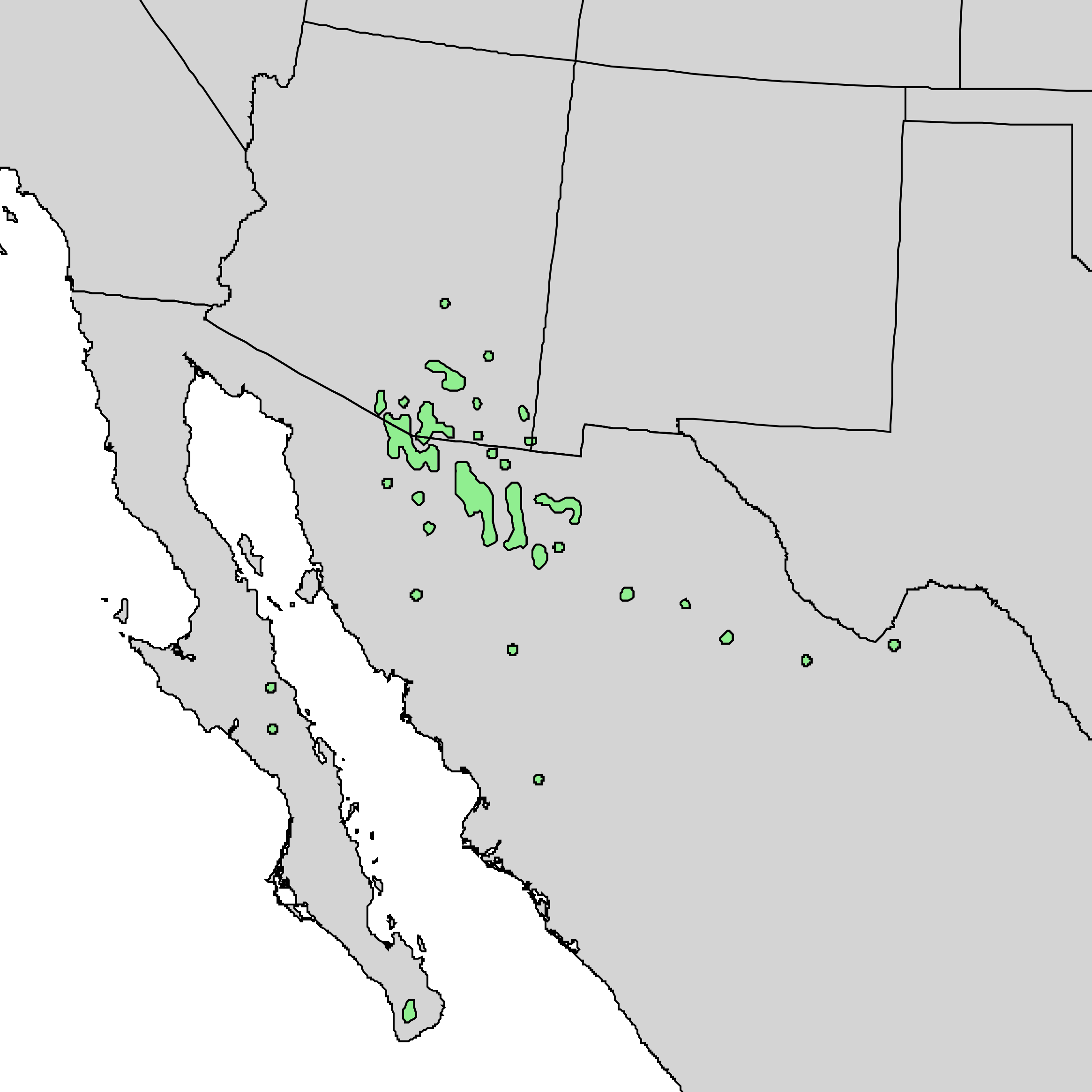 Natural distribution map for Quercus oblongifolia